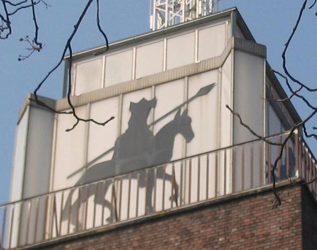 Listed Alboinkontor in Berlin-Schöneberg, Germany, nearby Alboinplatz (place). Alboinstraße/Corner Magirusstr., former Schwarzkopf-factory. Silhouette from the eponymous Alboin at the tower.